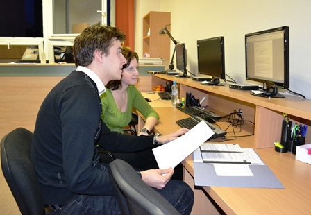 Students working on a case in a student's legal aid office, Palacky University